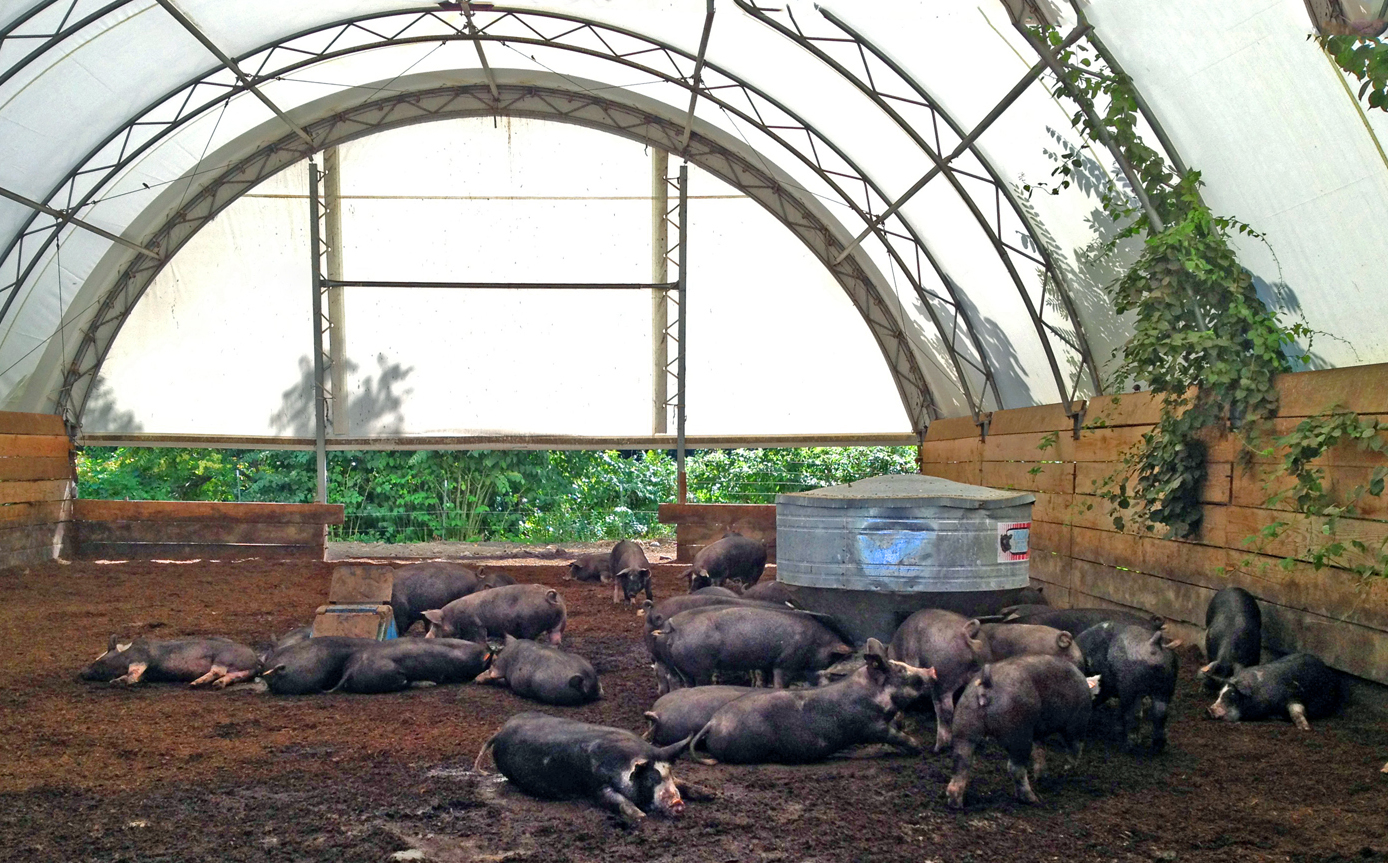 Pigs in a family farm sized pen, gathered around a rotary feeder. (Stone Barns Center for Food & Agriculture, Pocantico Hills, NY).